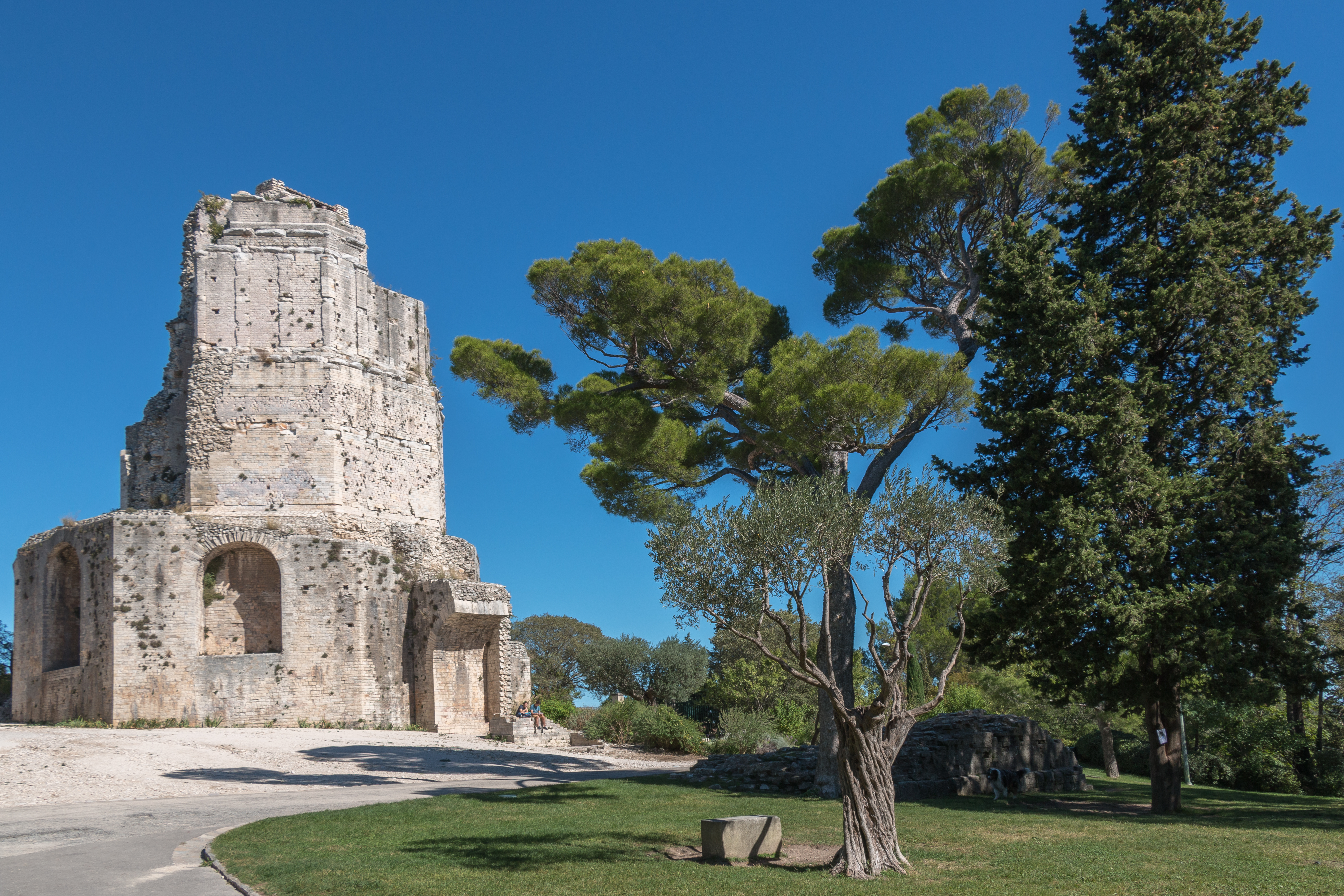 The Tour Magne in Nîmes